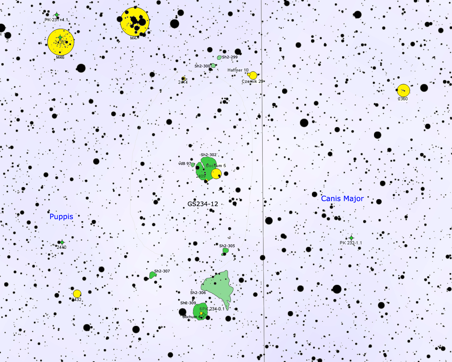 Map of GS234-02 molecular cloud